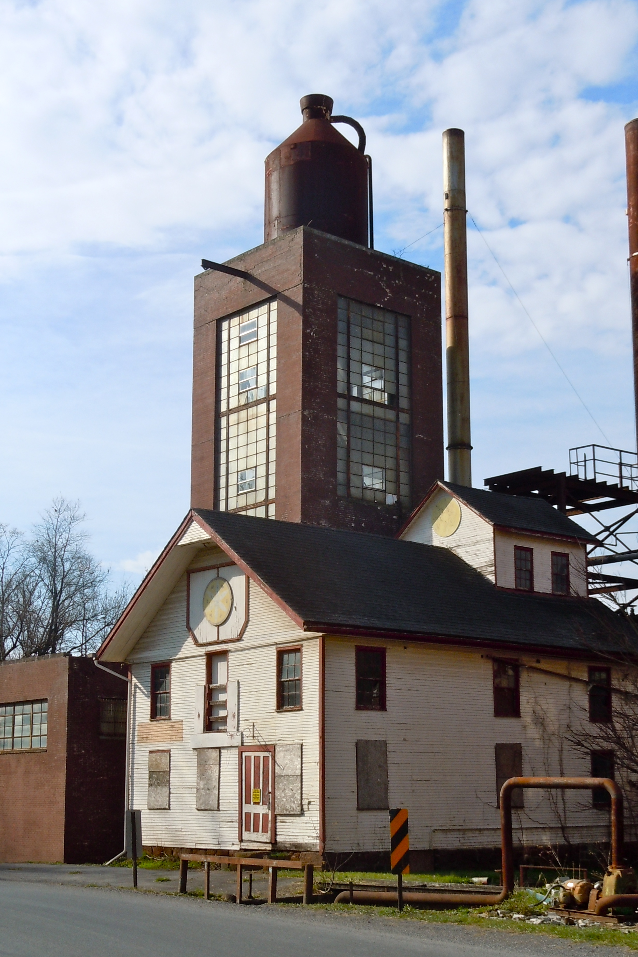 National Historic Landmark Bomberger's Distillery on the NRHP since June 26, 1975. 7 miles (11 km) southwest of Newmanstown off Pennsylvania Route 501, Heidelberg Township, Lebanon County, Pennsylvania. On Distillers Road near Metzgers Rd, closer to Schaeffertown, PA